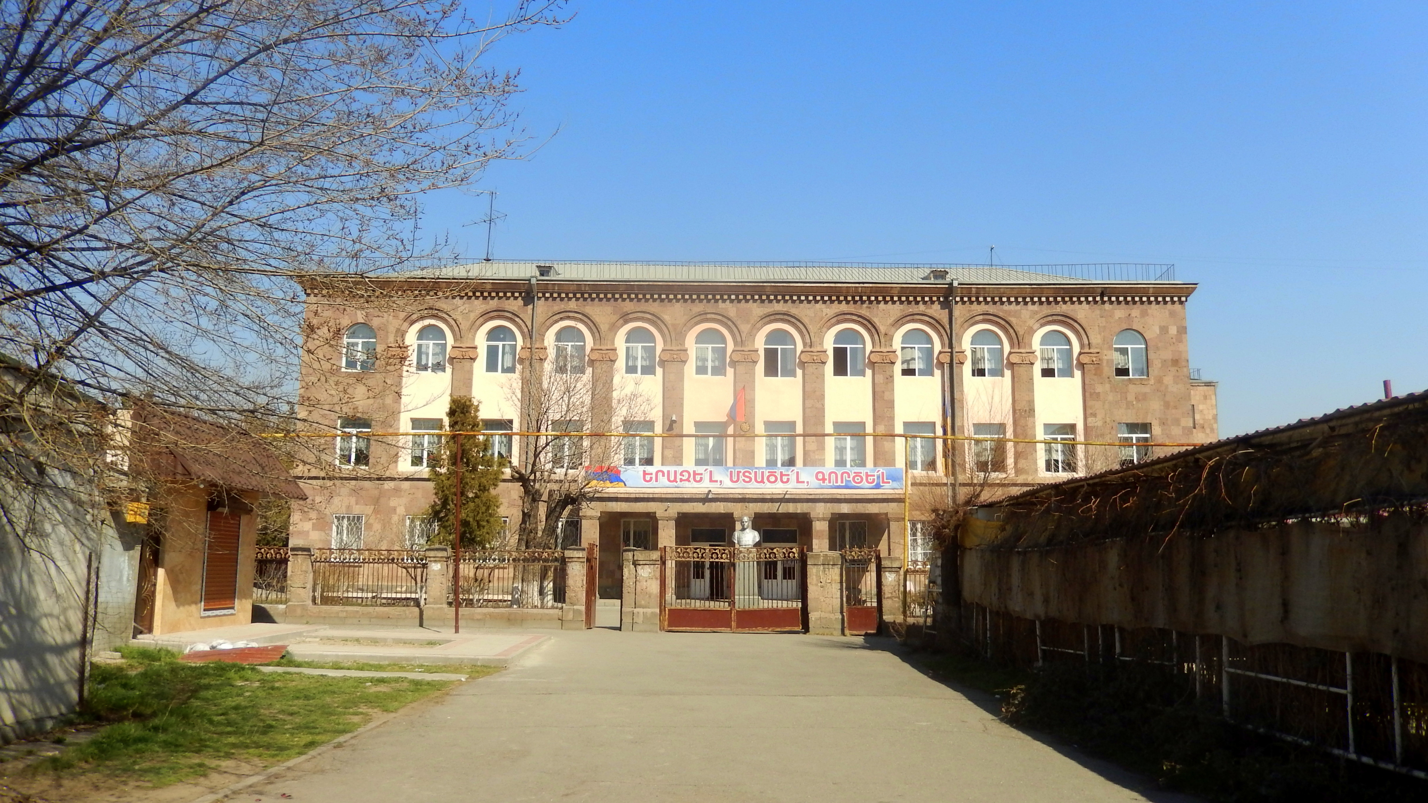 Երևանի Ալեքսանդր Մյասնիկյանի անվան թիվ 66 հիմնական դպրոց